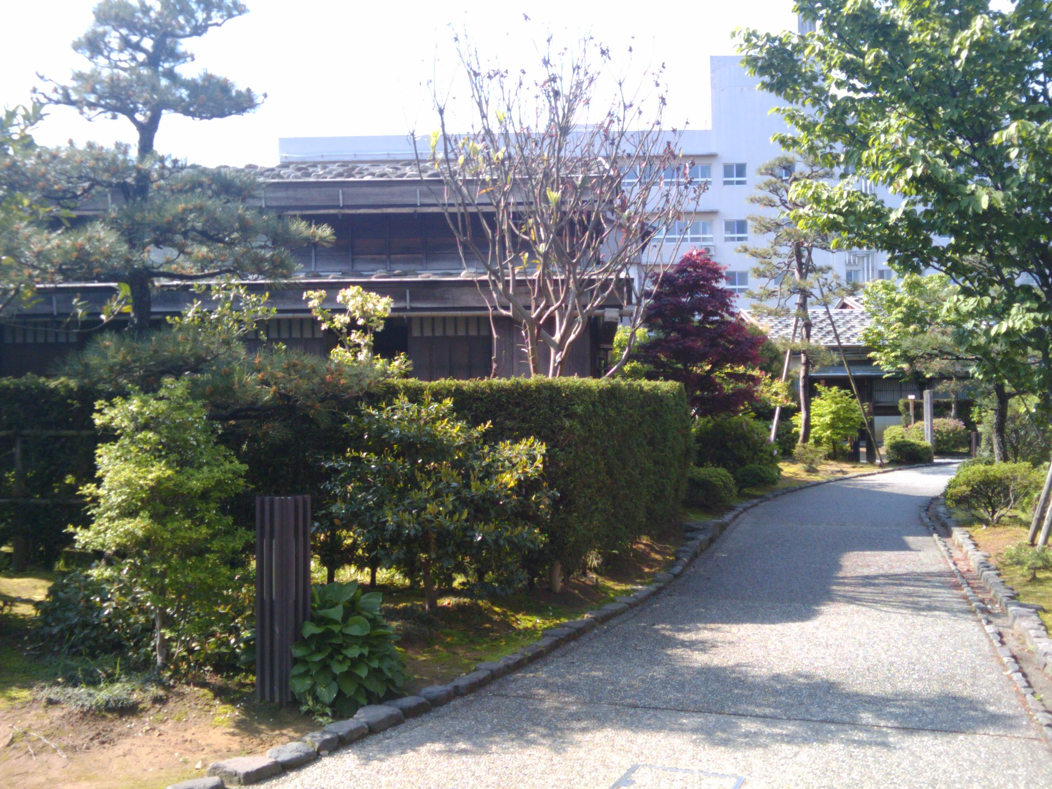 Ashigaru Shiryokan Museum (Kanazawa, Ishikawa, Japan)